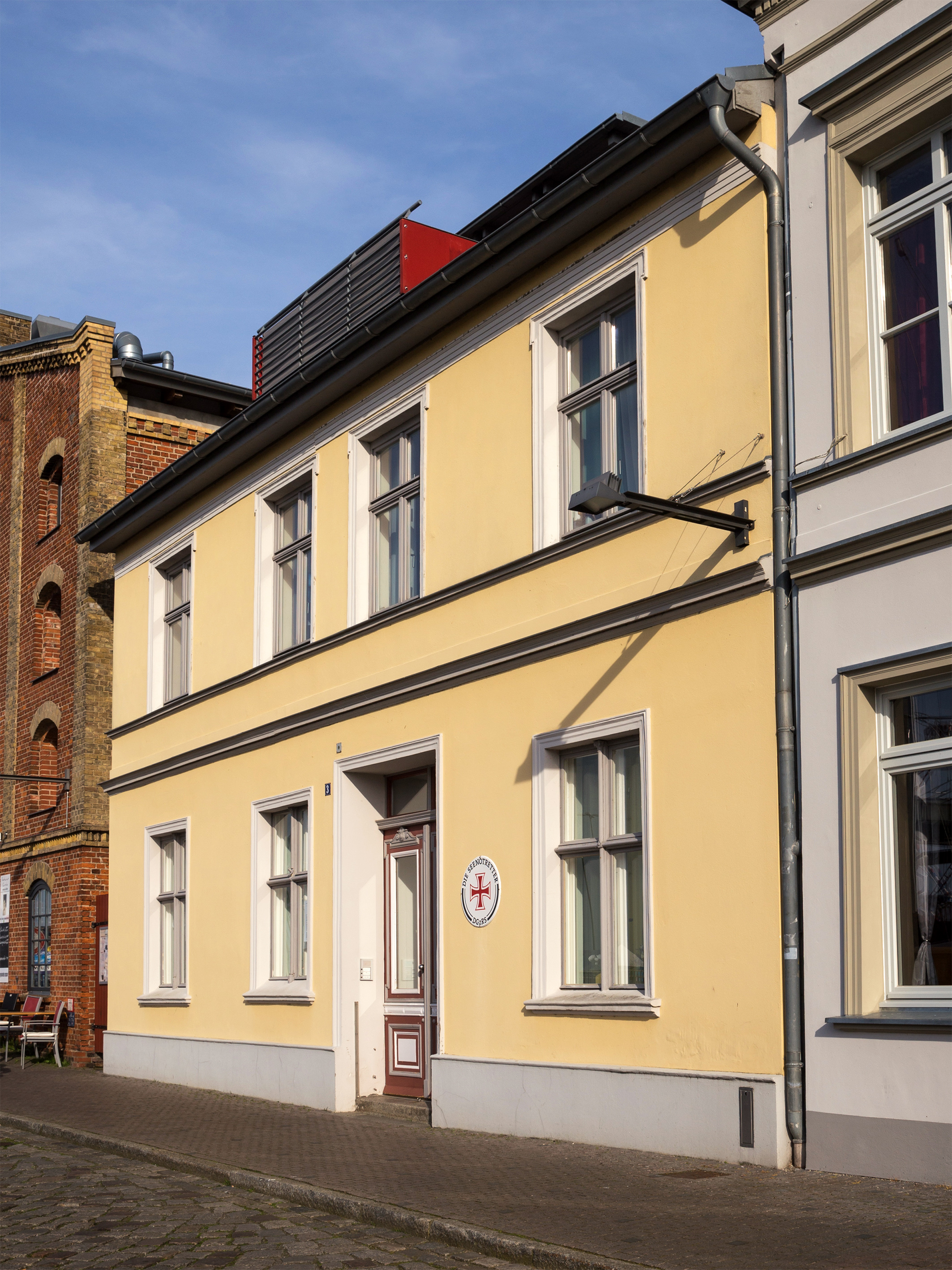 Stralsund, Am Querkanal 3, cultural heritage monument